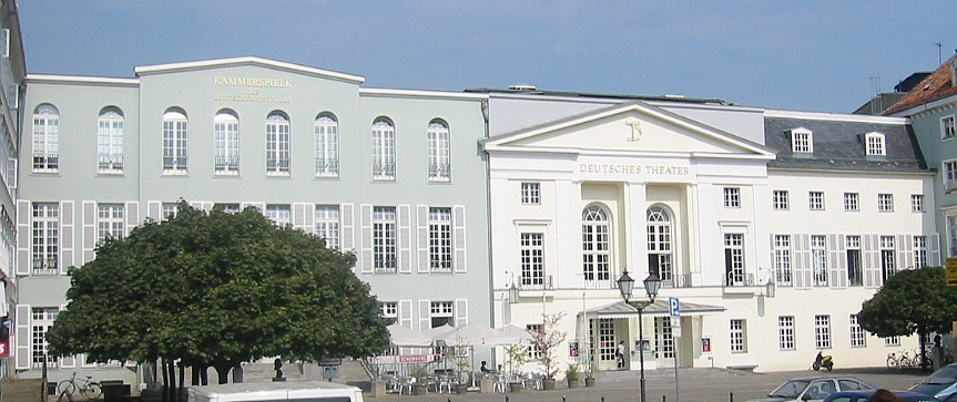 Berlin, theatres in Schumannstraße: Kammerspiele (left) and Deutsches Theater (right)